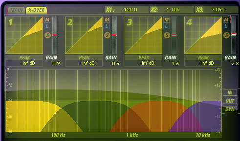 Multiband compressor